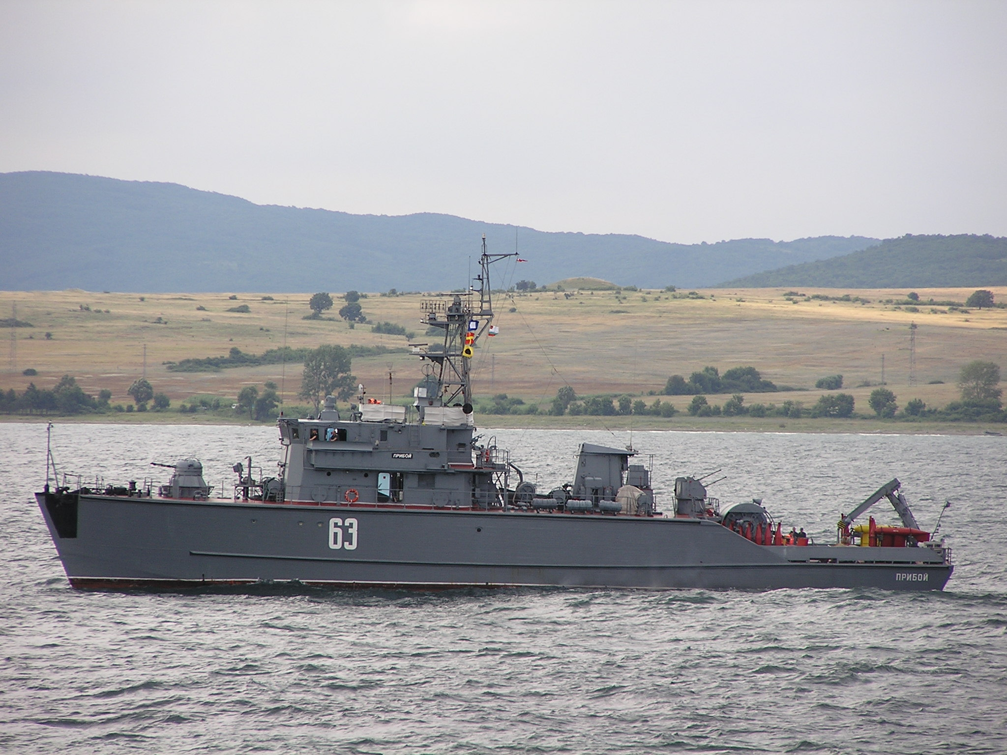 The Soviet built project 1265E Yakhont №63 “Priboy”, Burgas.